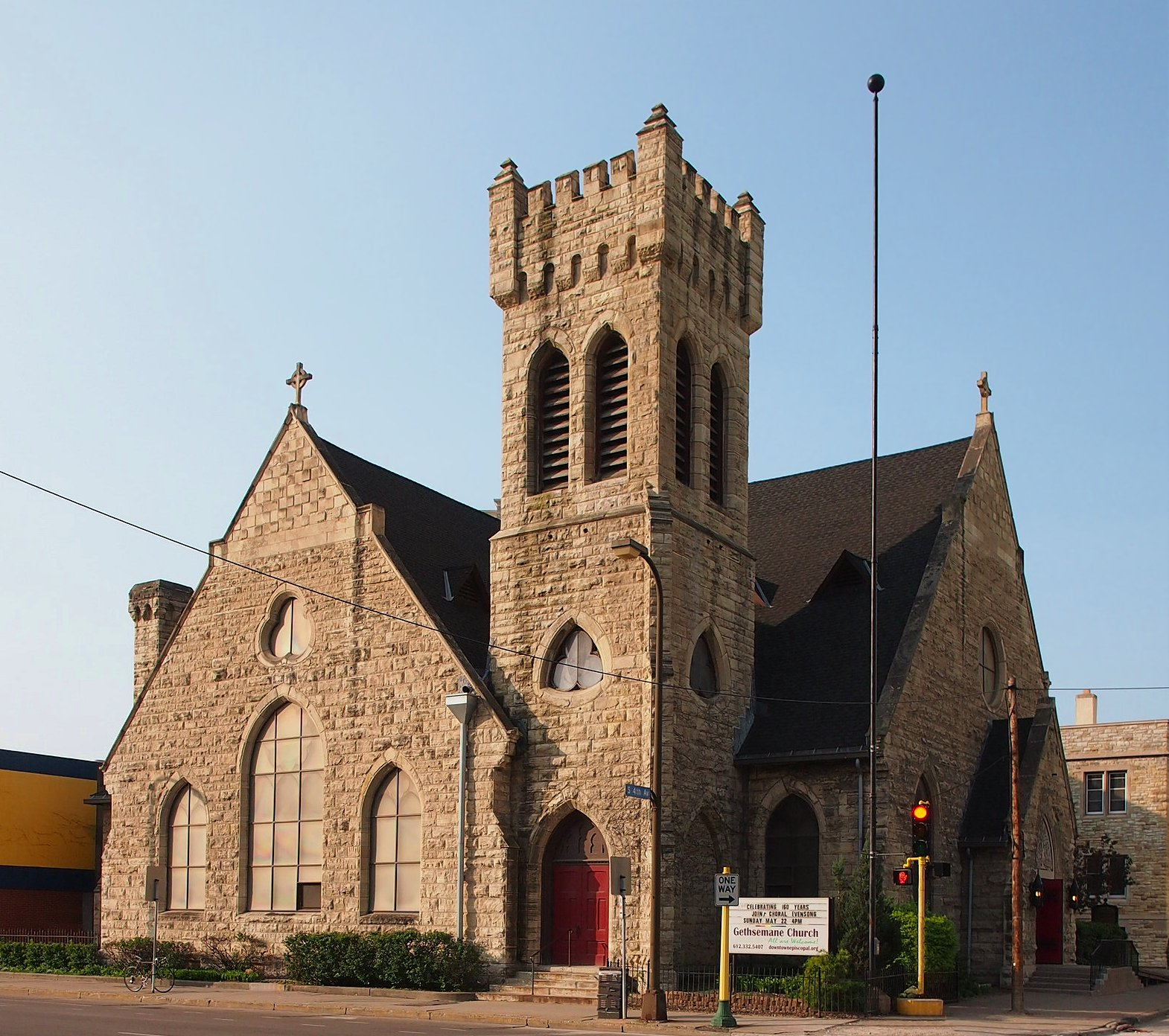 Gethsemane Episcopal Church, 905 4th Ave S, Minneapolis, Minnesota, USA. Viewed from the north.